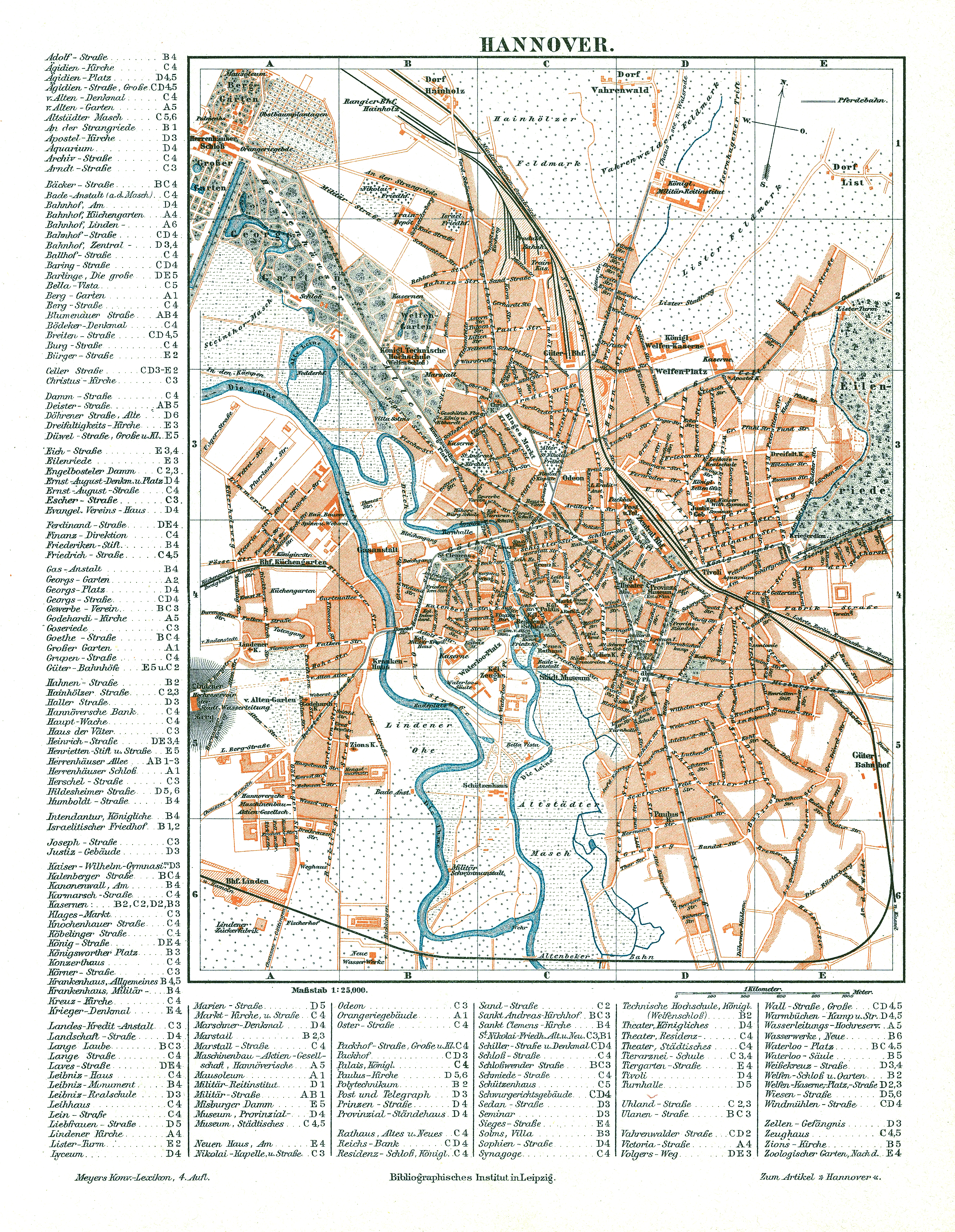 Hanover map 1888 approximately